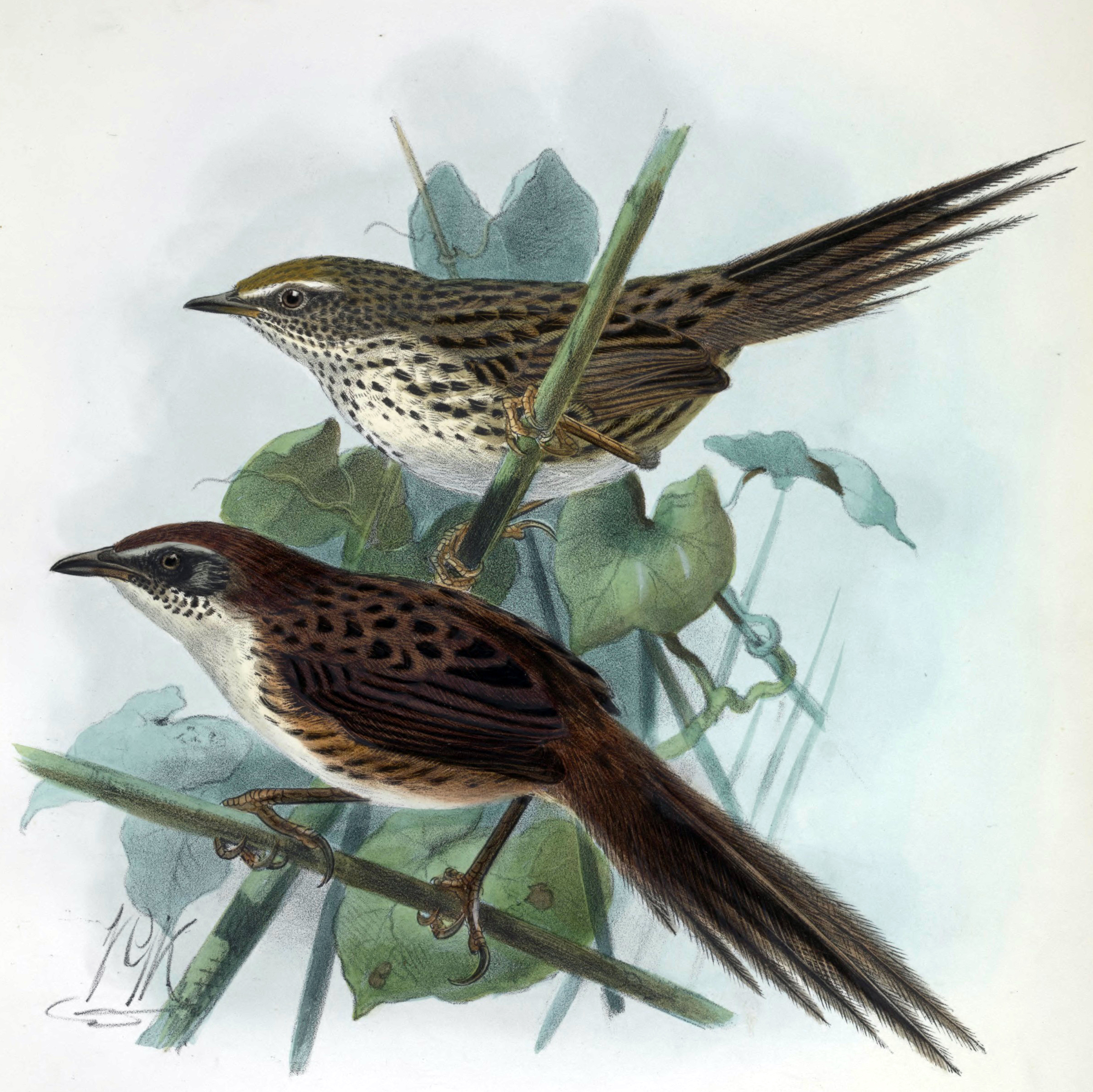 Top - Fernbird (Bowdleria punctata). Bottom - extinct.